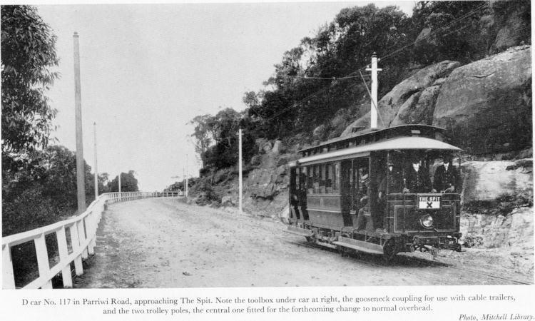 D class tram 117 Pirriwi Road approaching The Spit